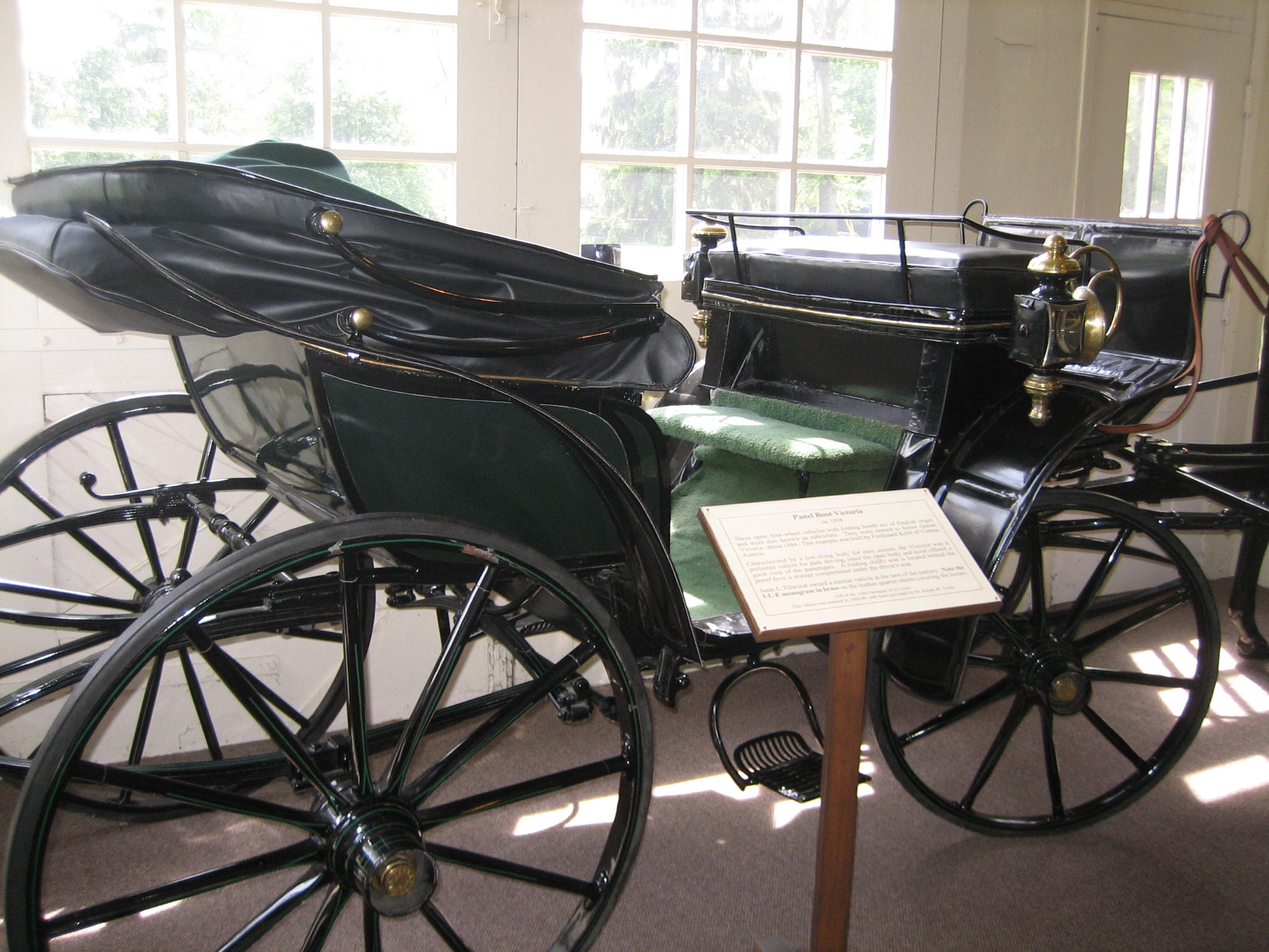 A Panel Boot Victoria type carriage, circa 1840s. At the Ellwood House Visitor Center in DeKalb, Illinois.